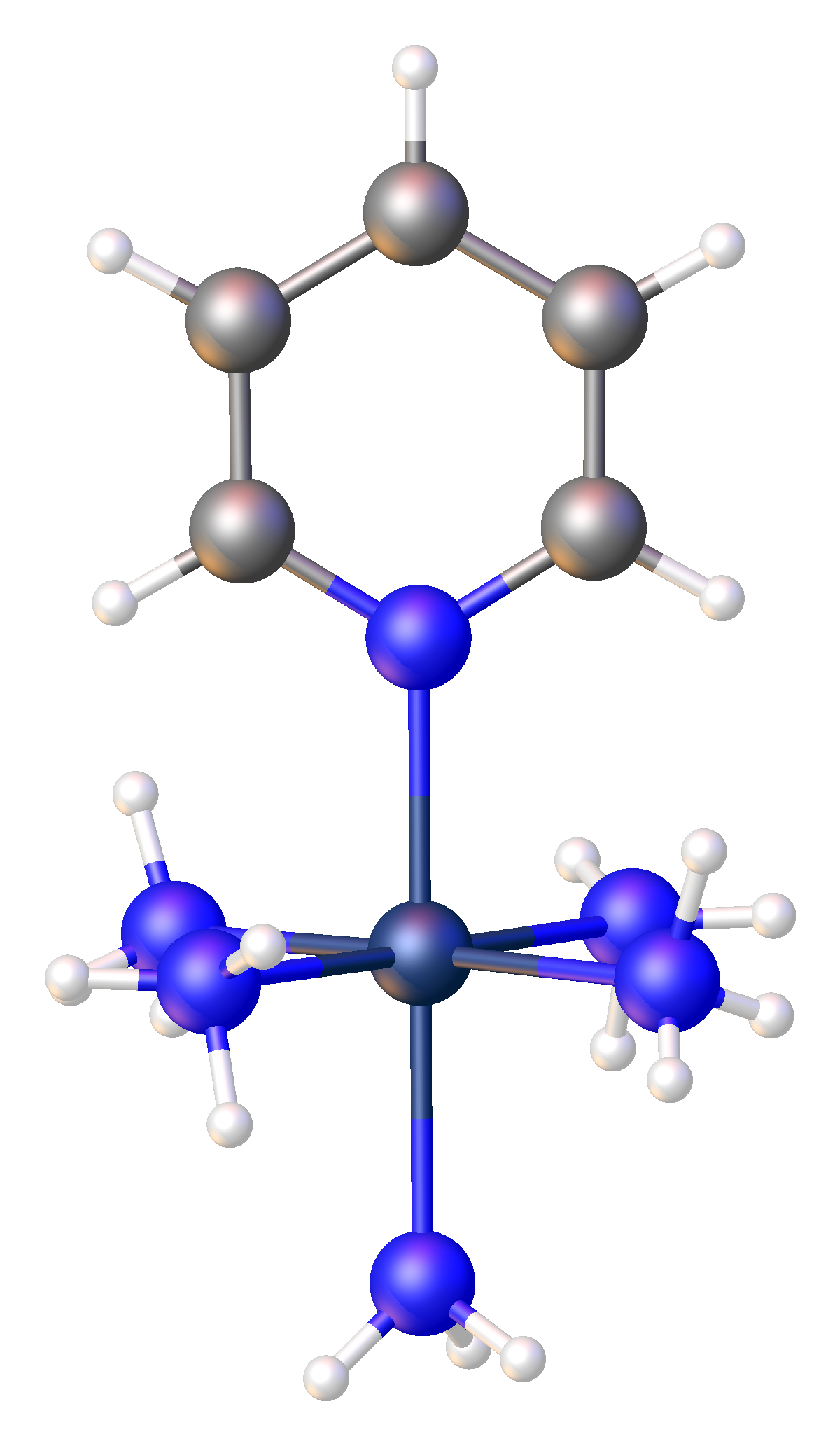 Structure of Ru(NH3)5py++